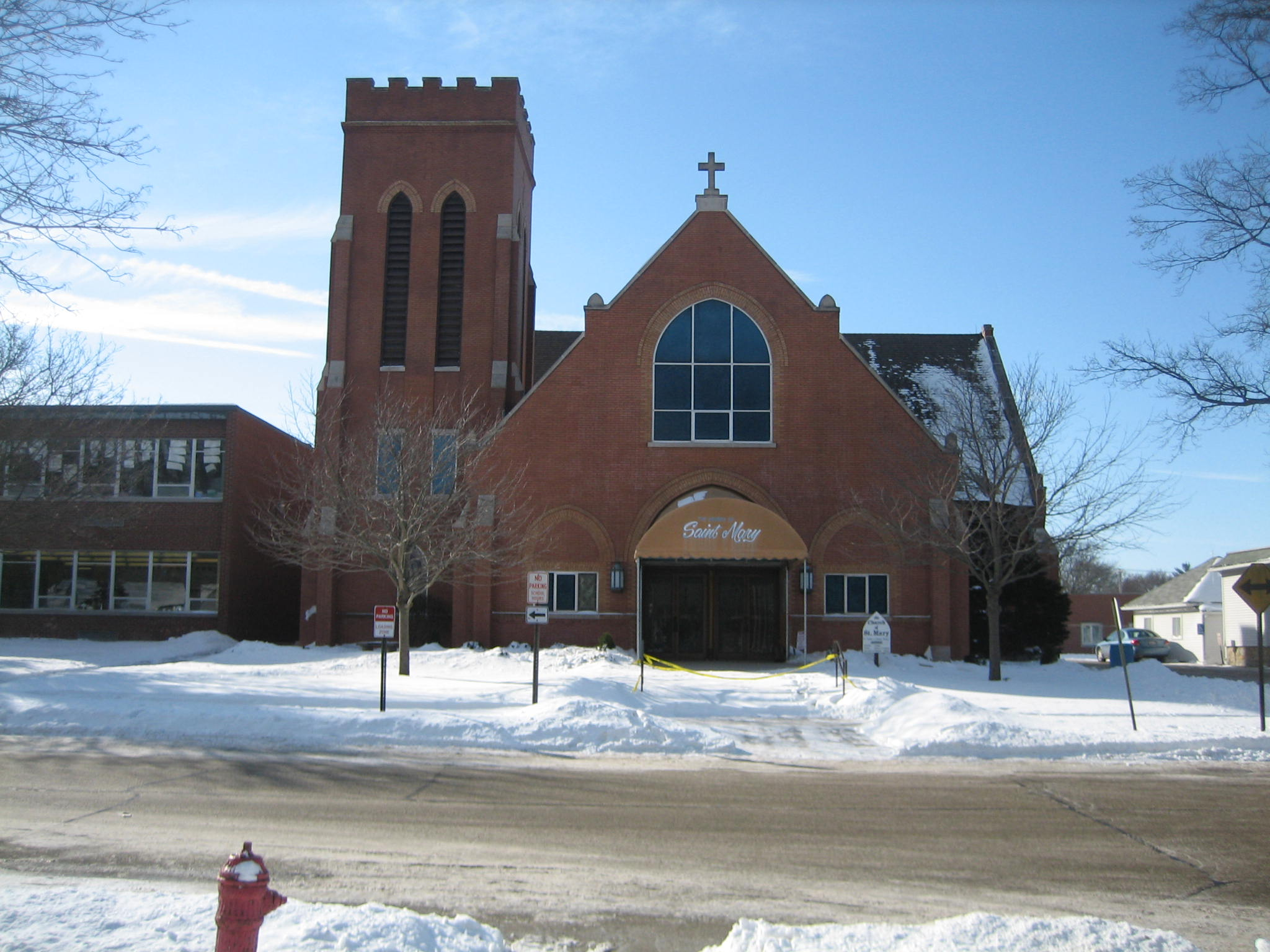 South side of the intersection of Waterman St. and California St., St. Mary's Roman Catholic Church (attached school), Sycamore, Illinois, Sycamore Historic District. National Register of Historic Places